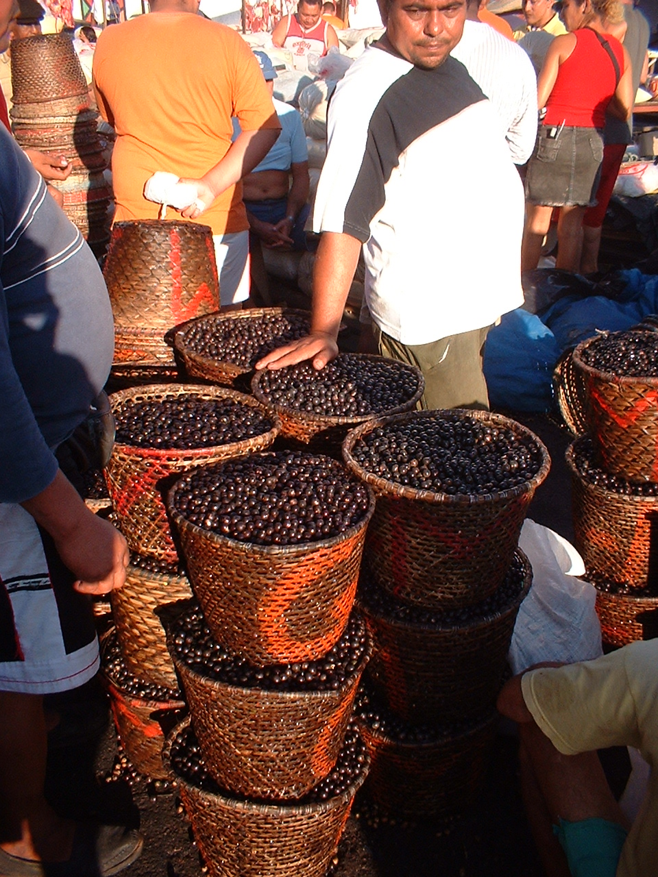 Açaí (palm berries) for sale at Ver-o-Peso market, Belém, Pará, Brazil